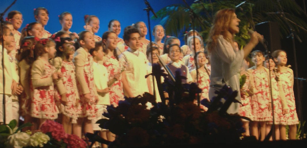 Piccolo Coro "Mariele Ventre" dell'Antoniano and Sabrina Simoni in Zabrze, Poland